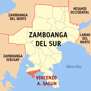 Map of Zamboanga del Sur showing the location of Vincenzo A. Sagun